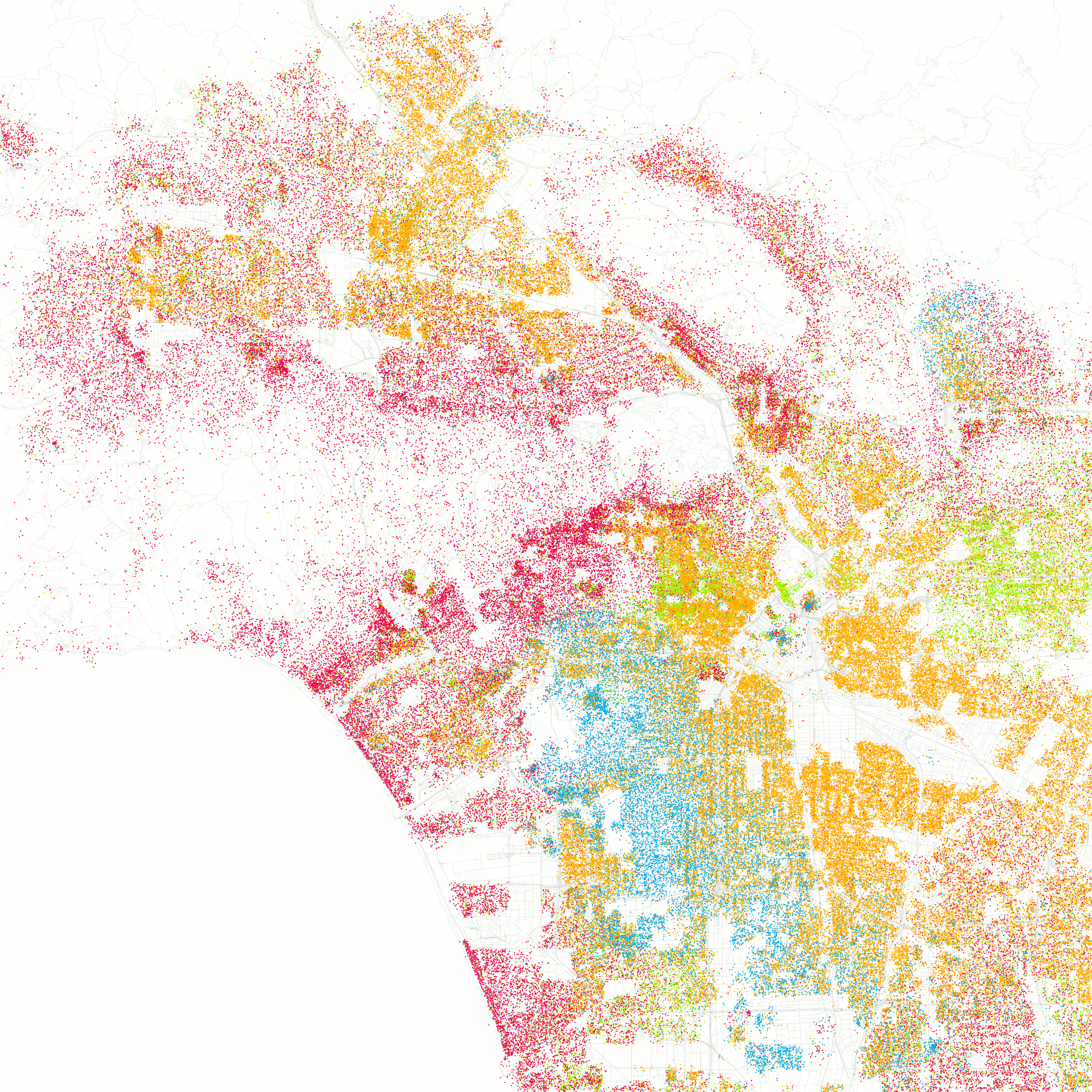 [Eric Fischer] was astounded by Bill Rankin's map of Chicago's racial and ethnic divides and wanted to see what other cities looked like mapped the same way. To match his map, Red is White, Blue is Black, Green is Asian, Orange is Hispanic, Gray is Other, and each dot is 25 people. Data from Census 2000. Base map © OpenStreetMap, CC-BY-SA